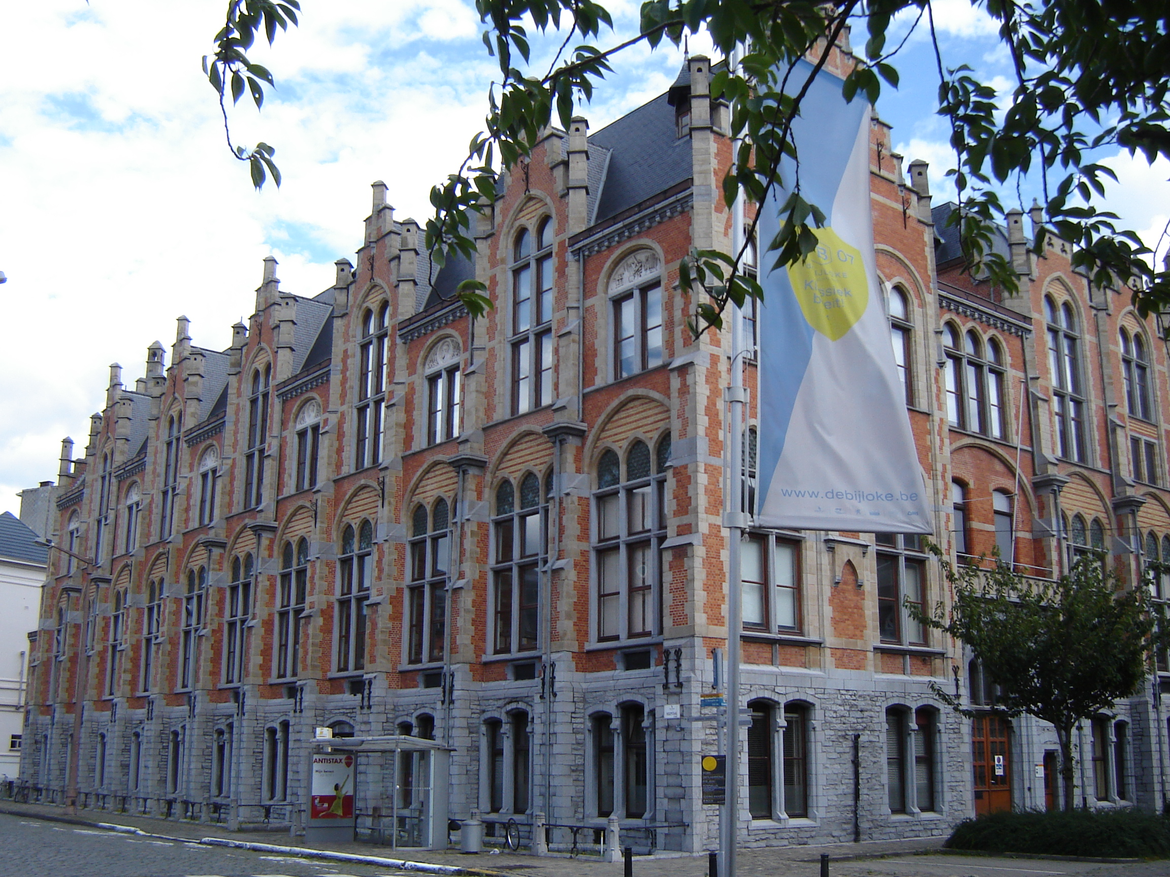 "Rommelaere Instituut" in Gent (in the Hospitaalstraat street). Gent, East Flanders, Belgium